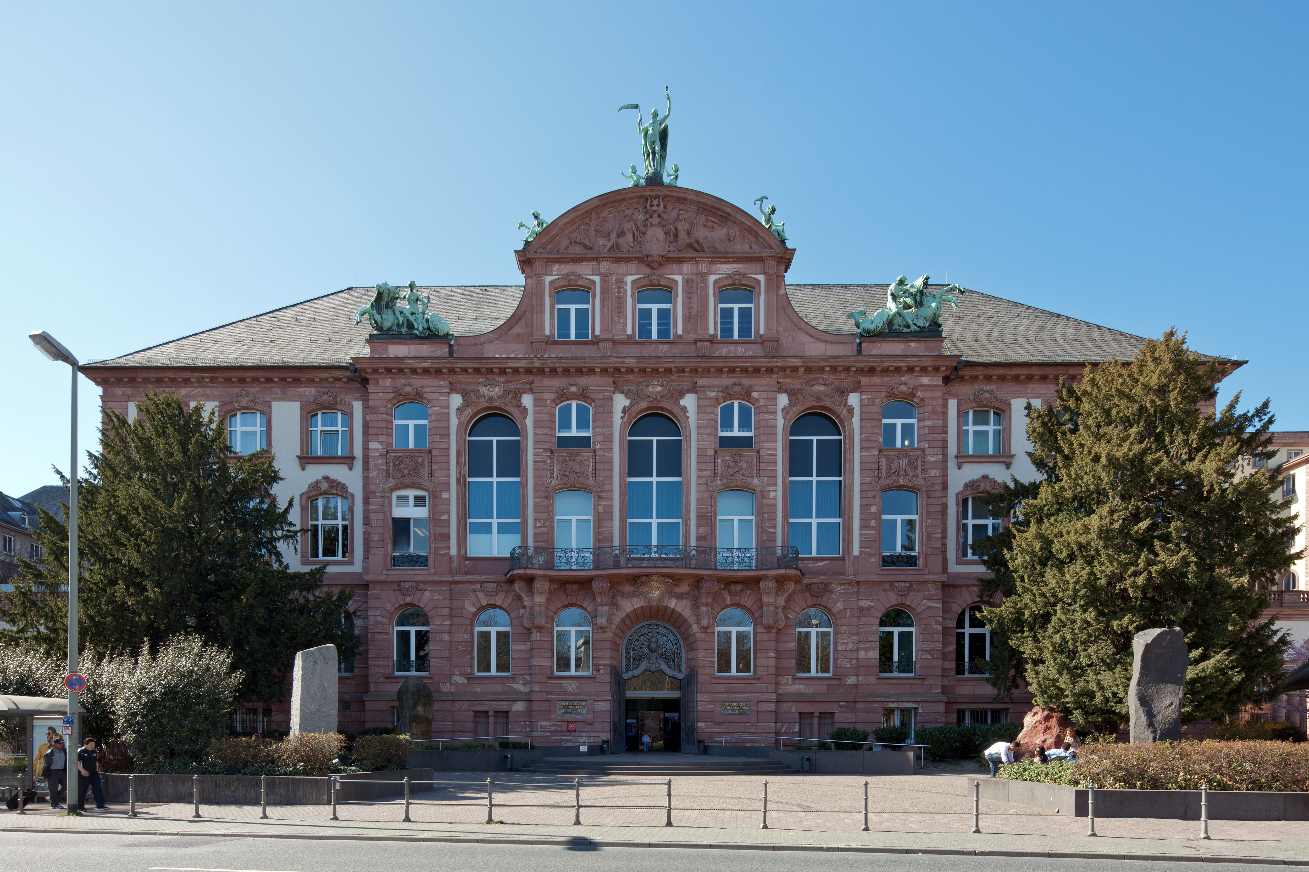 Frankfurt on the Main: Senckenberg Naturmuseum (Senckenberg Museum of Natural History) as seen from the east